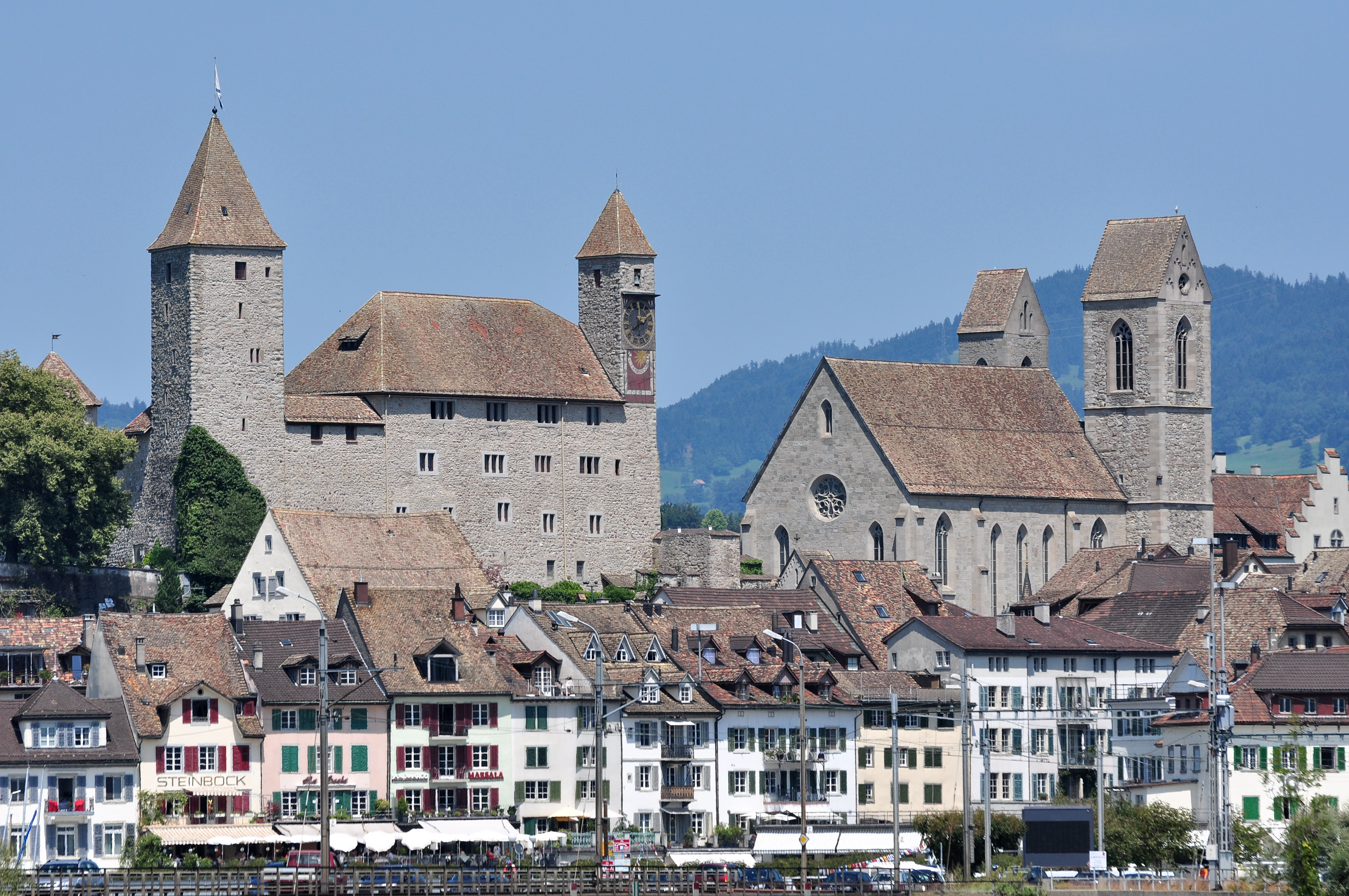 Rapperswil (Switzerland) : Rapperswil castle, Altstadt and St. John's Church, as seen from Holzbrücke crossing Obersee (upper Lake Zurich), the so-called Seedamm area in the foreground.